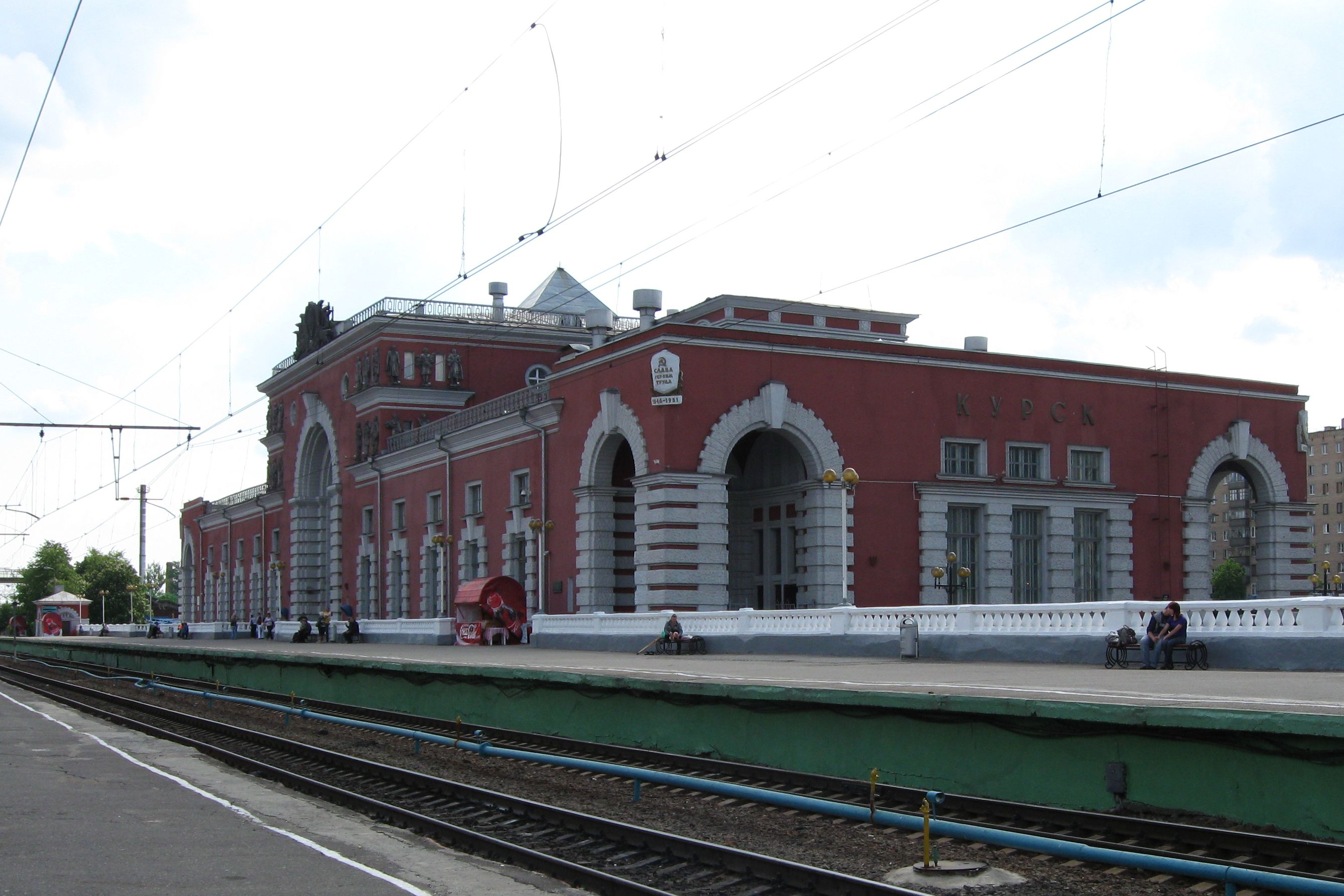 Kursk Train Station. View from 2nd platform.